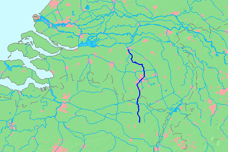 Location of a waterway (river/canal) in the Netherlends